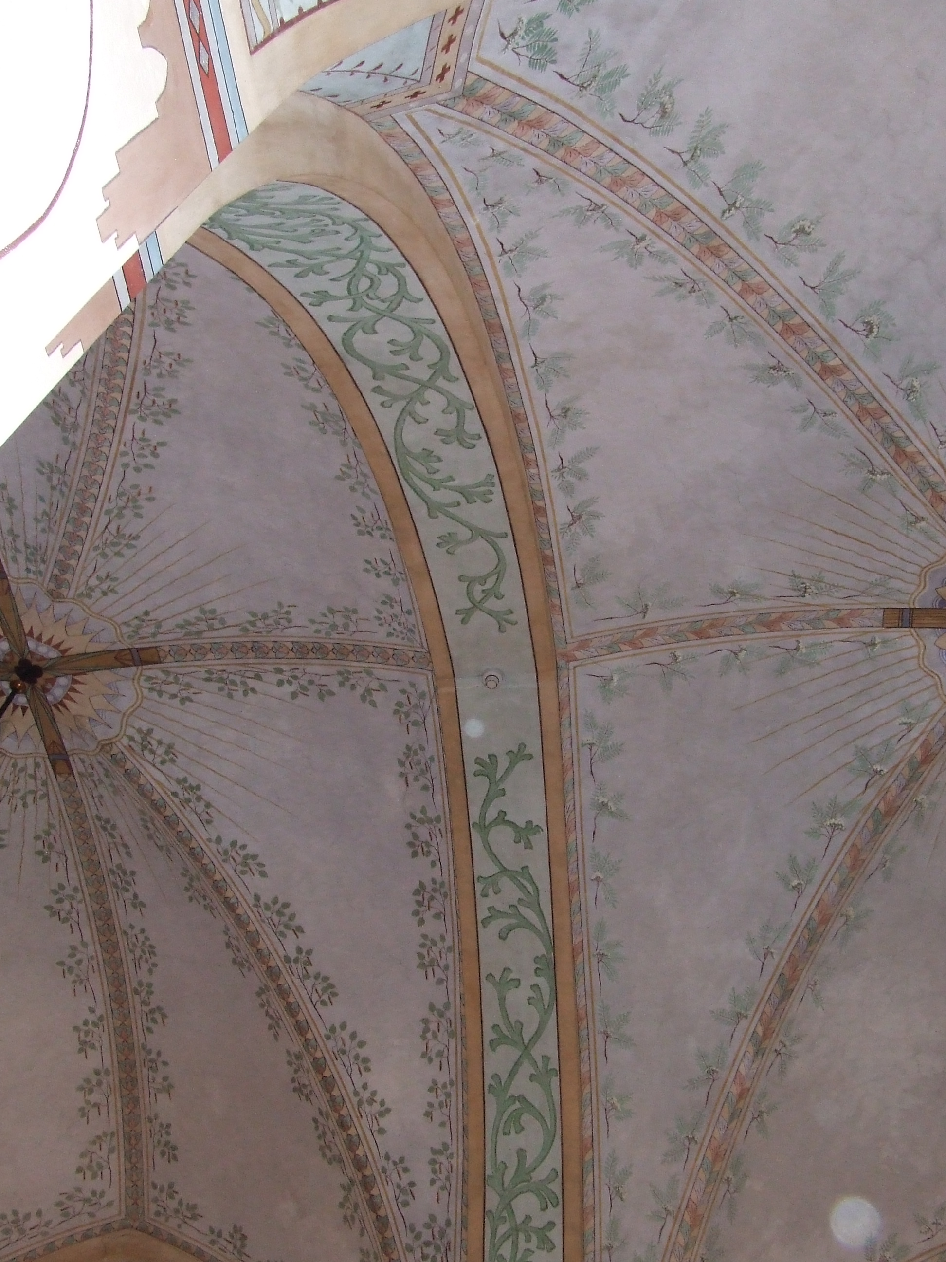 The ornamental vaults of Joensuu Church